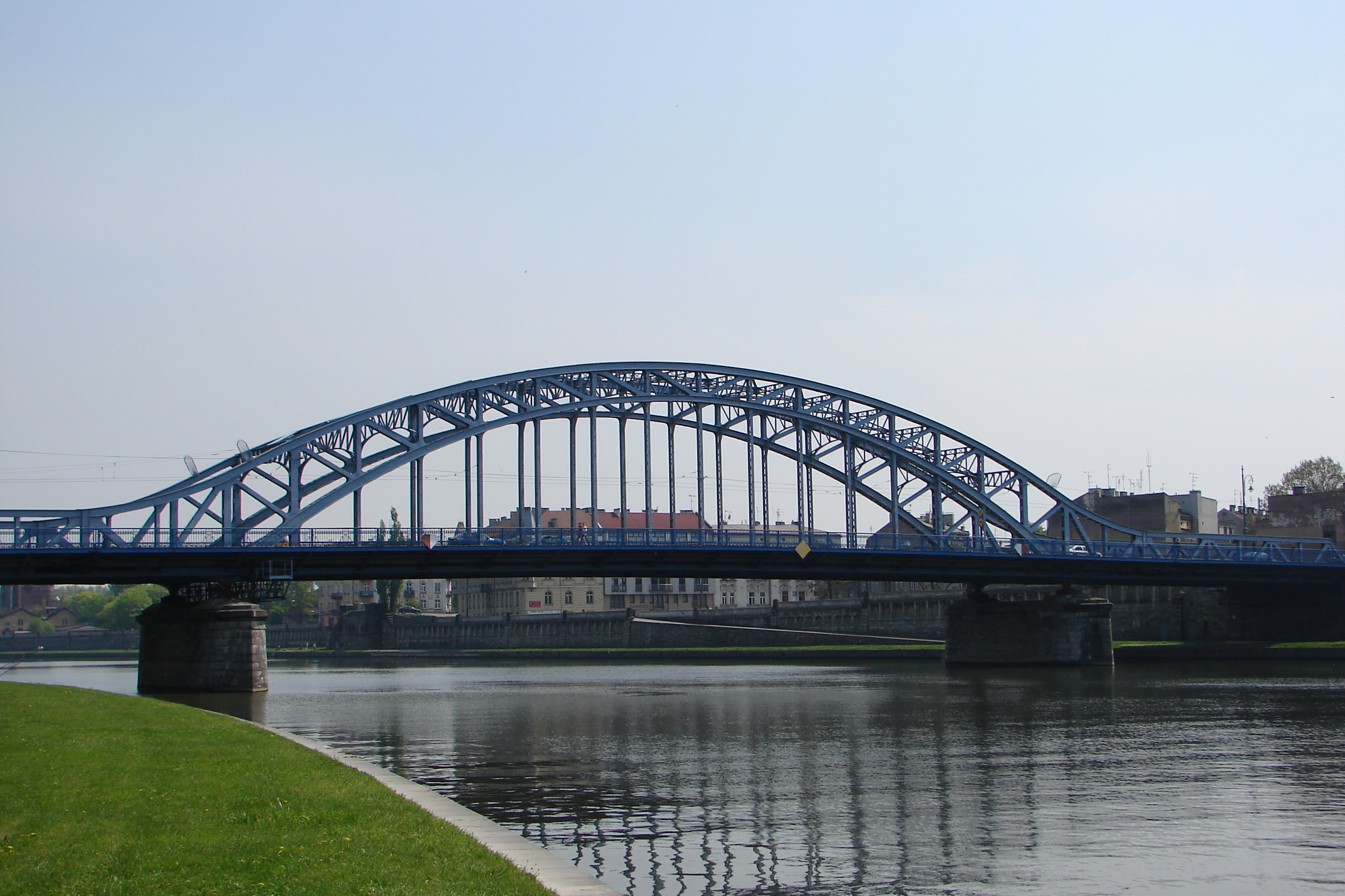 Pilsudski Bridge in Krakow